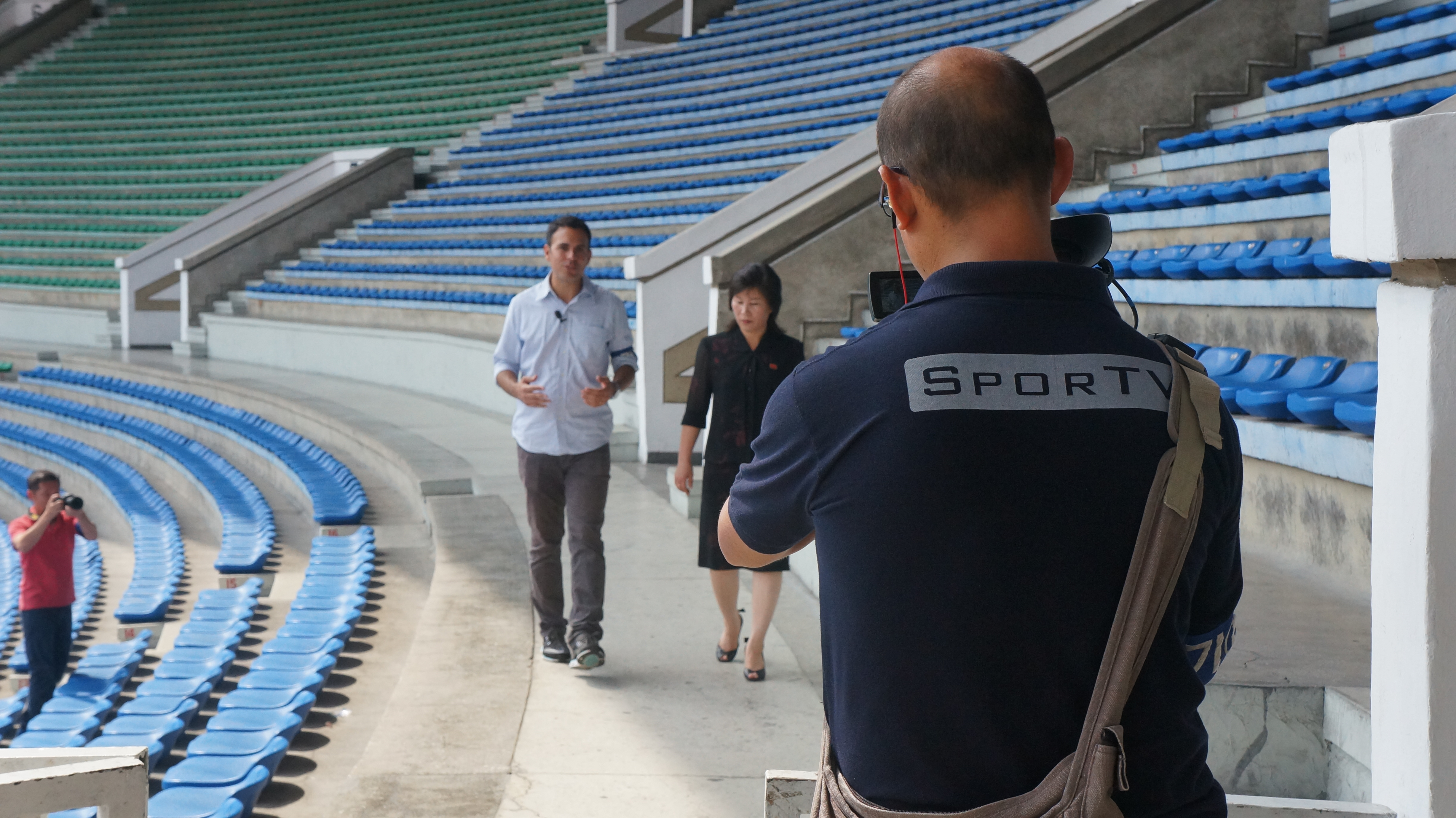 Organizer of Pyongyang Marathon and world title winner of the women's marathon at the 1999 World Championships in Athletics in Seville, Spain. Interview was arranged by Uri Tours and conducted by Tiago Maranhao from Globo's SporTV